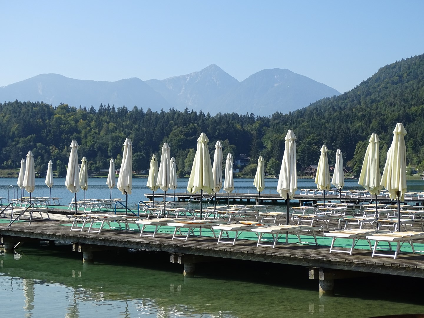 The public beach at Lake Klopein, background Obir